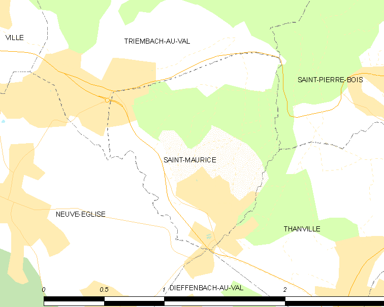 Map of French municipality